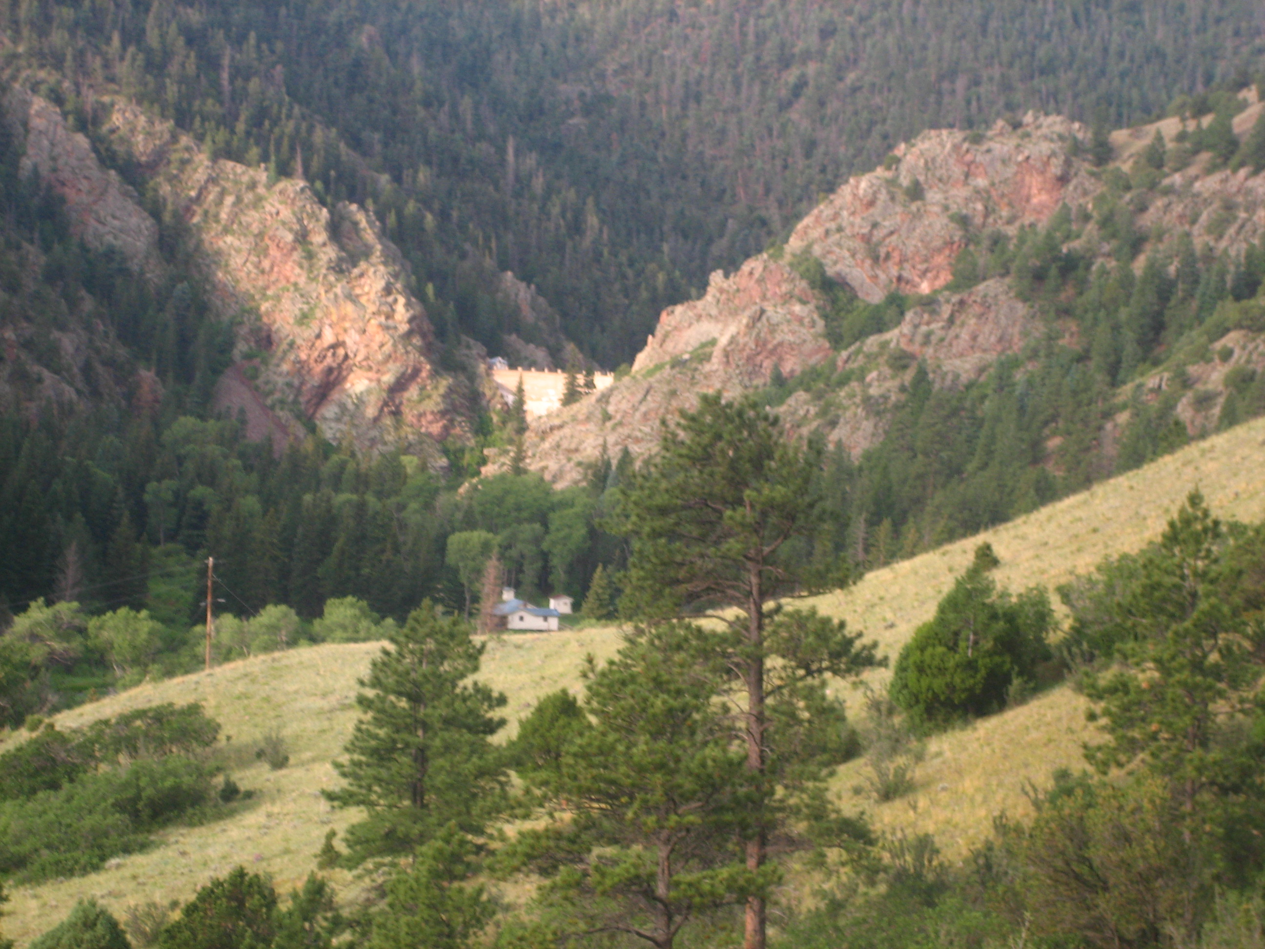 I took photo on July 13, 2008.